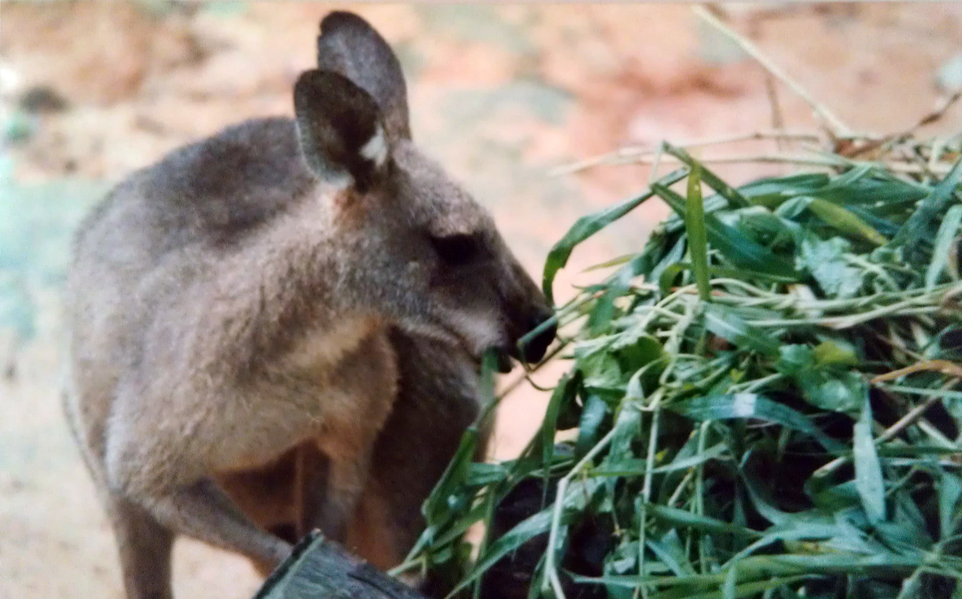 Antilopine kangaroo (Macropus antilopinus), Singapore Zoo